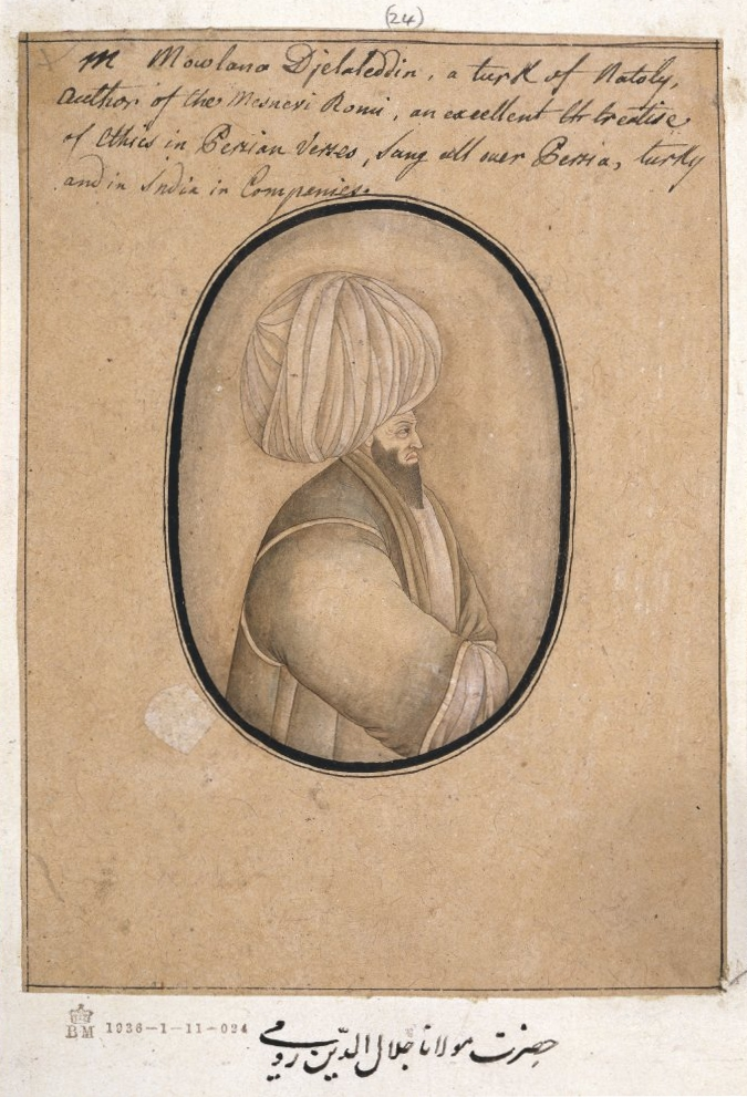 Drawing, album?. Portrait. Mauláná Jalál al-Dín. Drawn and tinted on paper. Jalal al-Din Rumi and Hafiz Mughal India, early 19th century Ink and watercolour on paper The posthumous portraits of these two famous Persian poets have been placed in an album of drawings and paintings of dignitaries and kings. The English inscriptions on the left hand page describes Rumi (1207-73): 'Mowlana Djelaleddin, a Turk of Natoly (Anatolia), author of the Mesnevi (mathnavi) Rumi, an excellent treatise of ethics in Persian verses, sung all over Persia, Turkey and in India in companies. The English inscriptions above the drawing on the right misidentified the poet Hafiz (1325-90), whose name appears in Persian in the lower margin. While the pose of Hafiz and the book next to him identify him as a poet, these attributes are not specific to him alone. By contrast, the enormous turban and sleeves, profile pose and wrinkled face are traits that regularly appear in posthumous portraits of the mystical poet, Rumi. He was Persian by birth but settled in Konya in Anatolia.